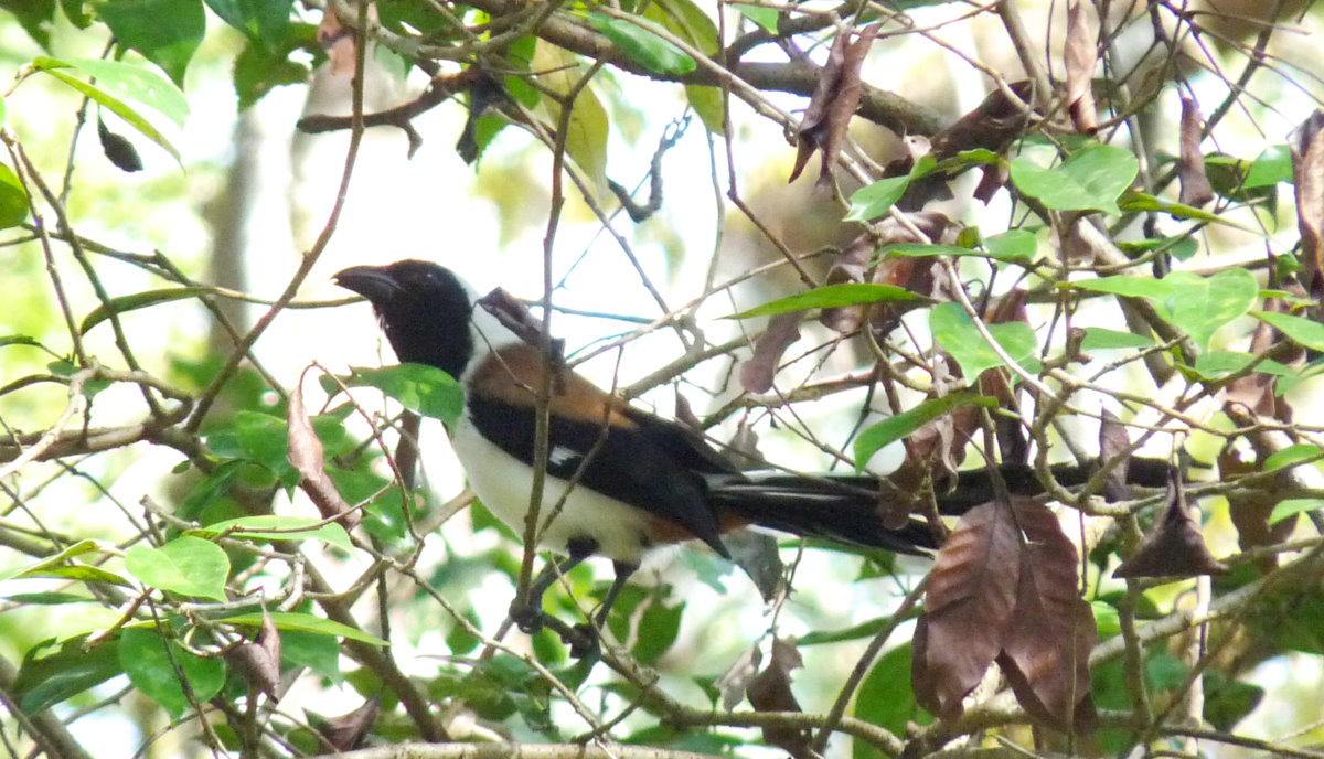 White-bellied Treepie Dendrocitta leucogastra at Anamalais, Valparai, Tamil Nadu, India